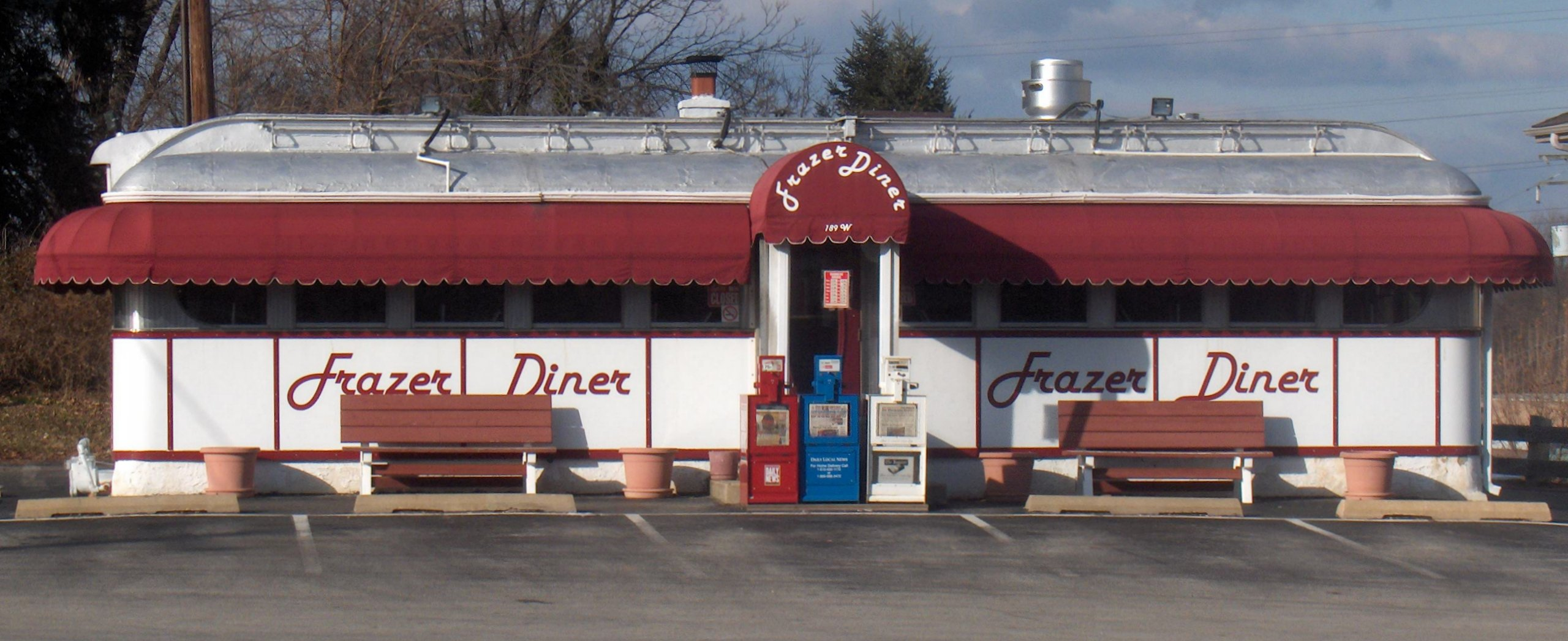 Frazer Diner, a Jerry O’Mahony Co. diner, established 1929, at 189 Lancaster Avenue, Frazer, PA 19355 in East Whiteland Township, Chester County, Pennsylvania.